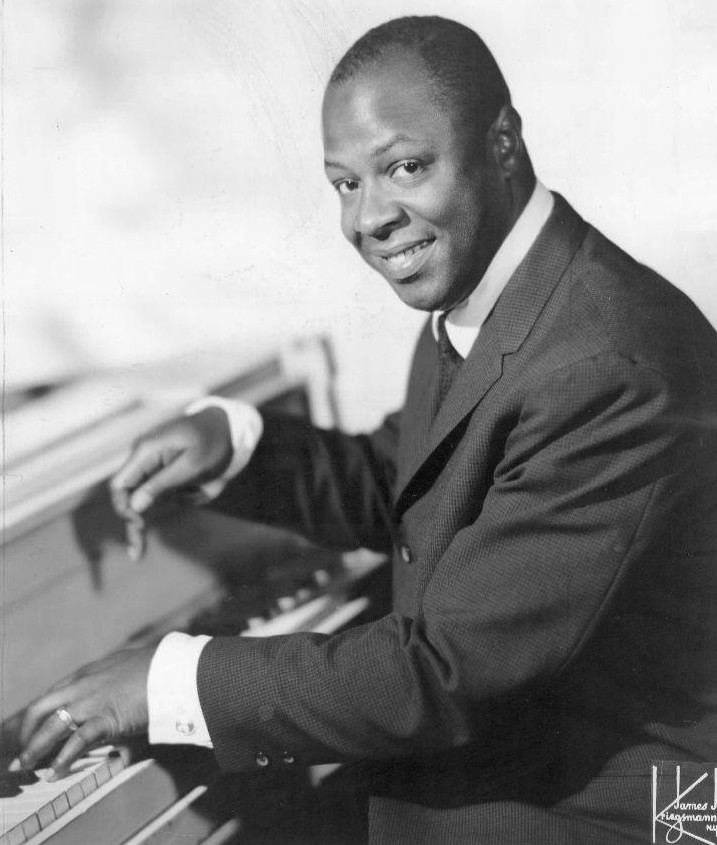 Photo of comedian, singer and actor George Kirby.